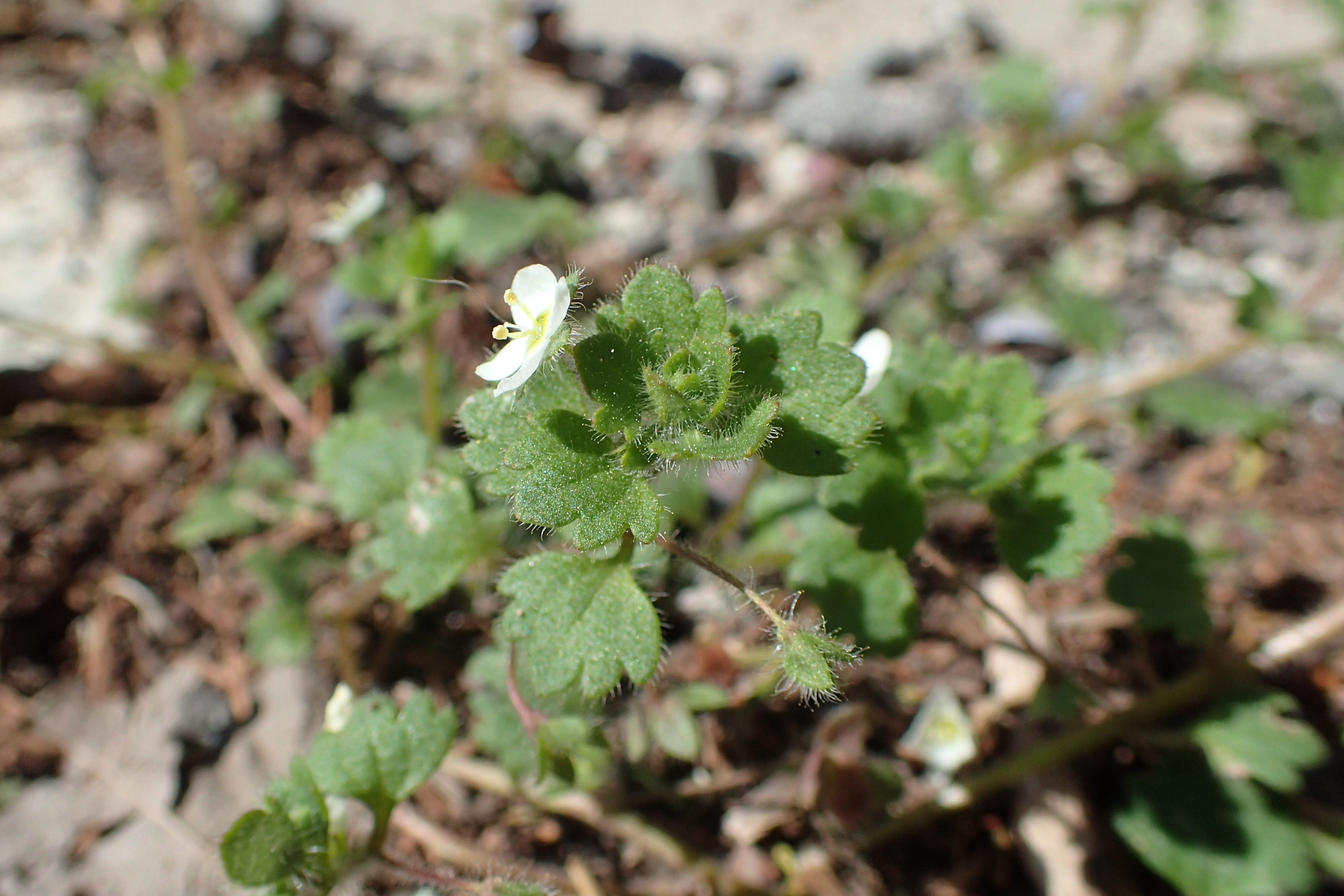 Veronica cymbalaria in Kato Arodes, Cyprus